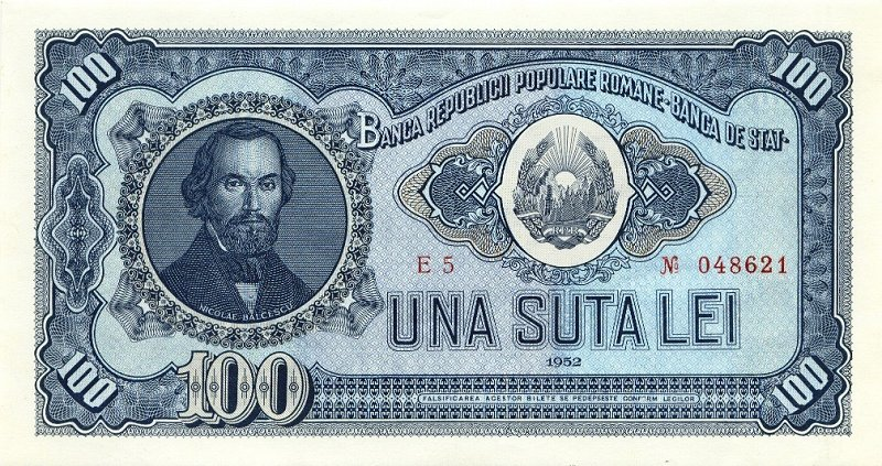 100 Romanian leu from 1952 - obverse